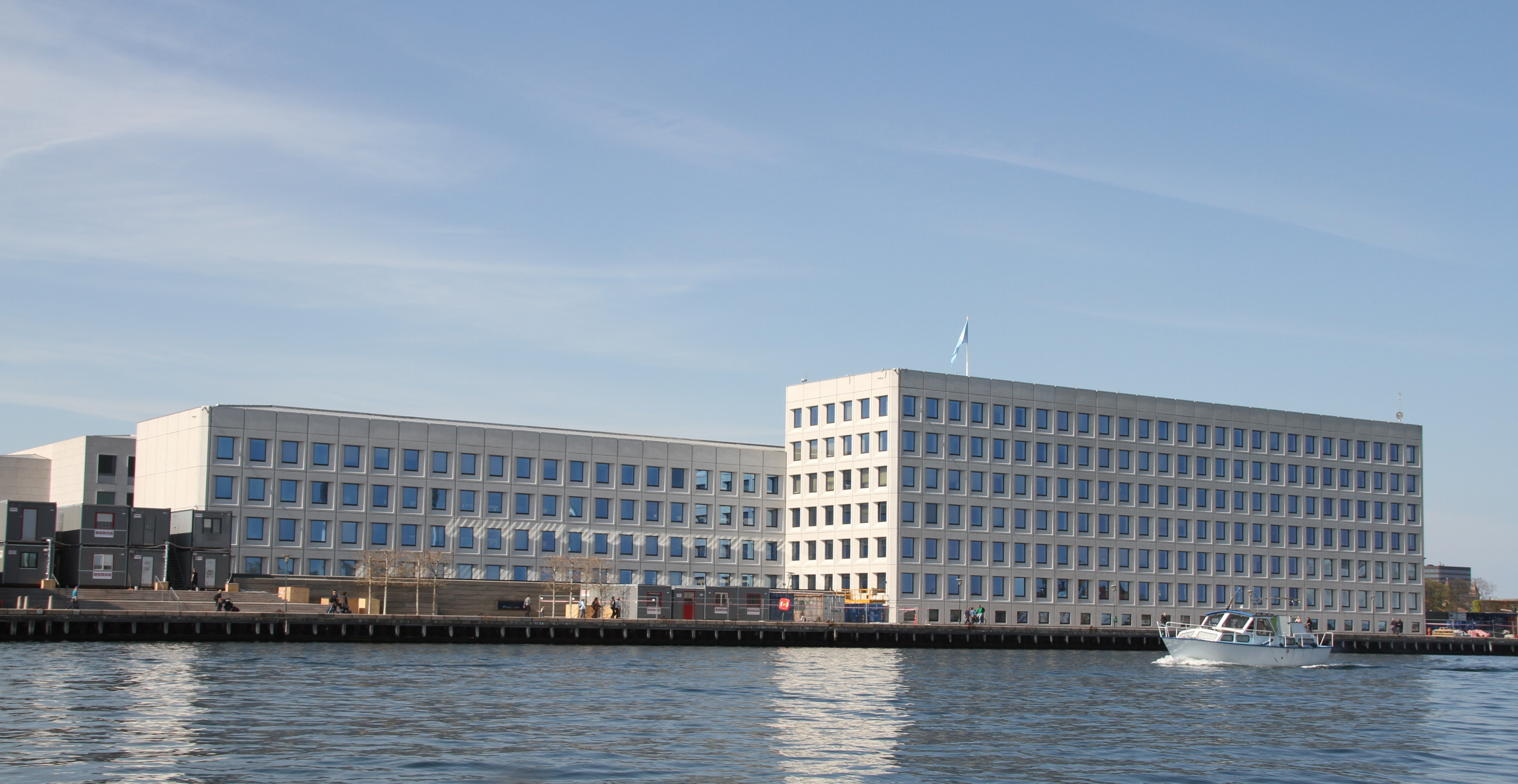 The headquarters of A P Møller (& Maersk) in Copenhagen, Denmark. This is one of Denmark's largest companies.